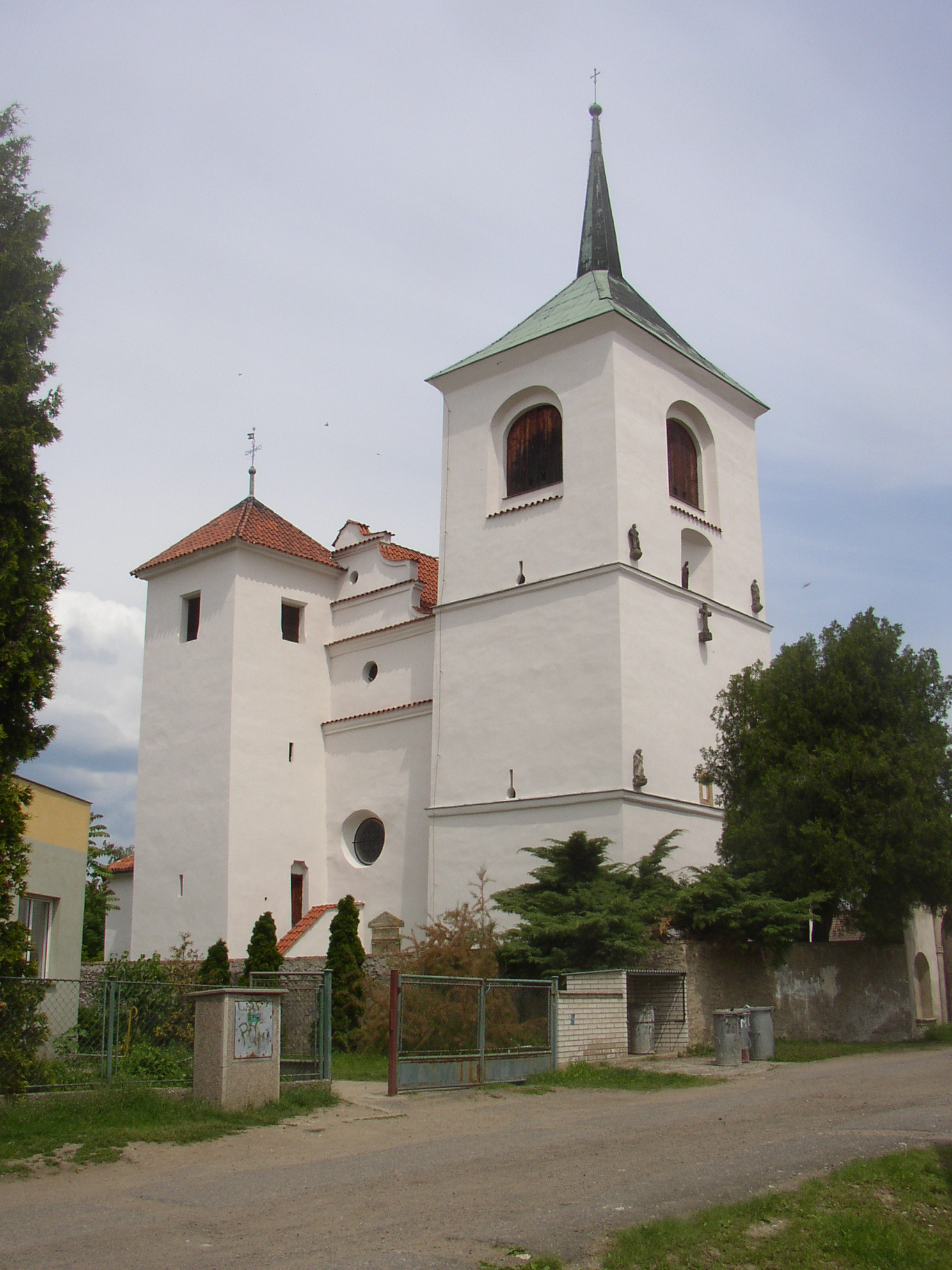 St Gotthard church in Brozany nad Ohří, Czech Republic. See also img. 02.